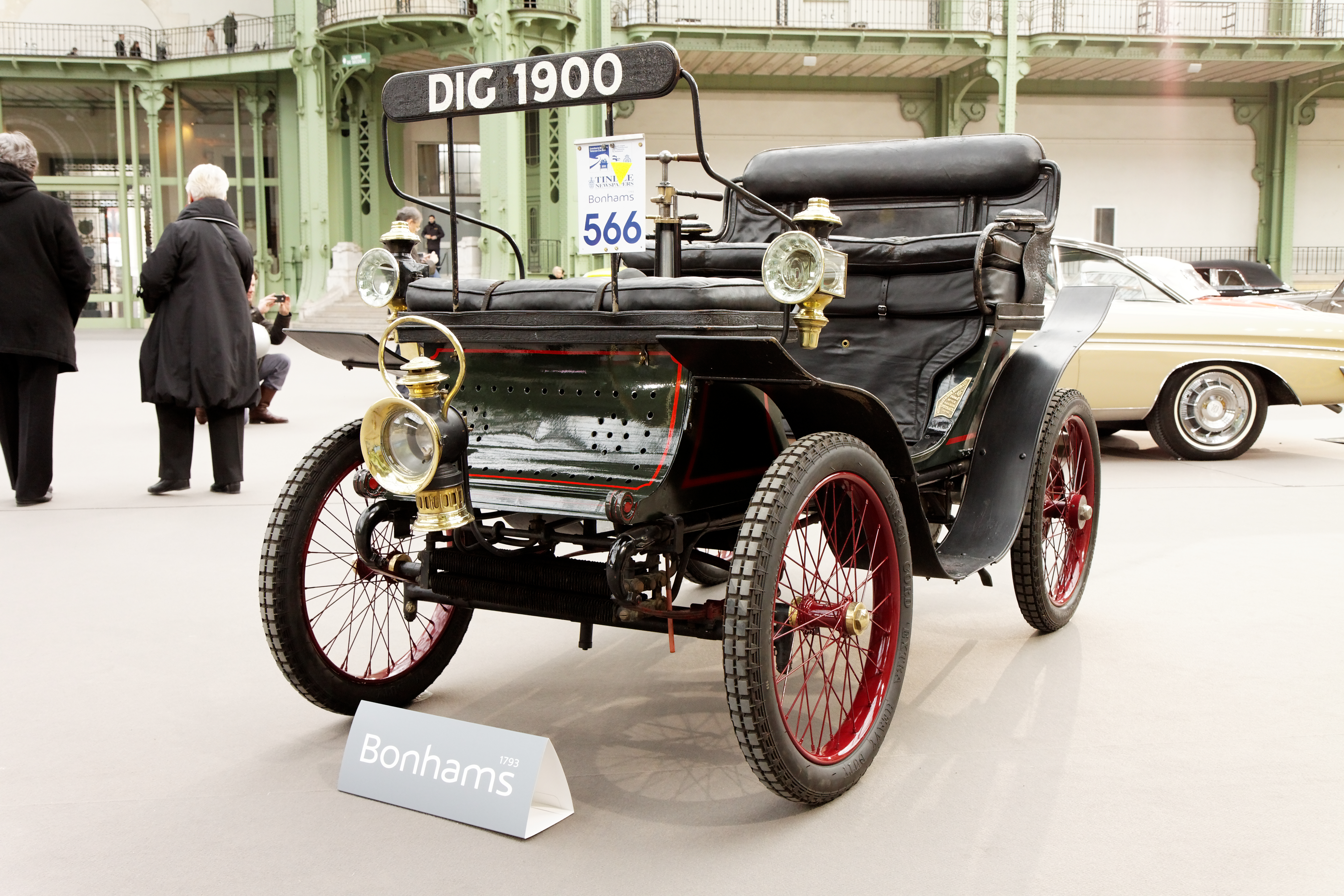 The making of this document was supported by Wikimédia France. (Submit your project!)